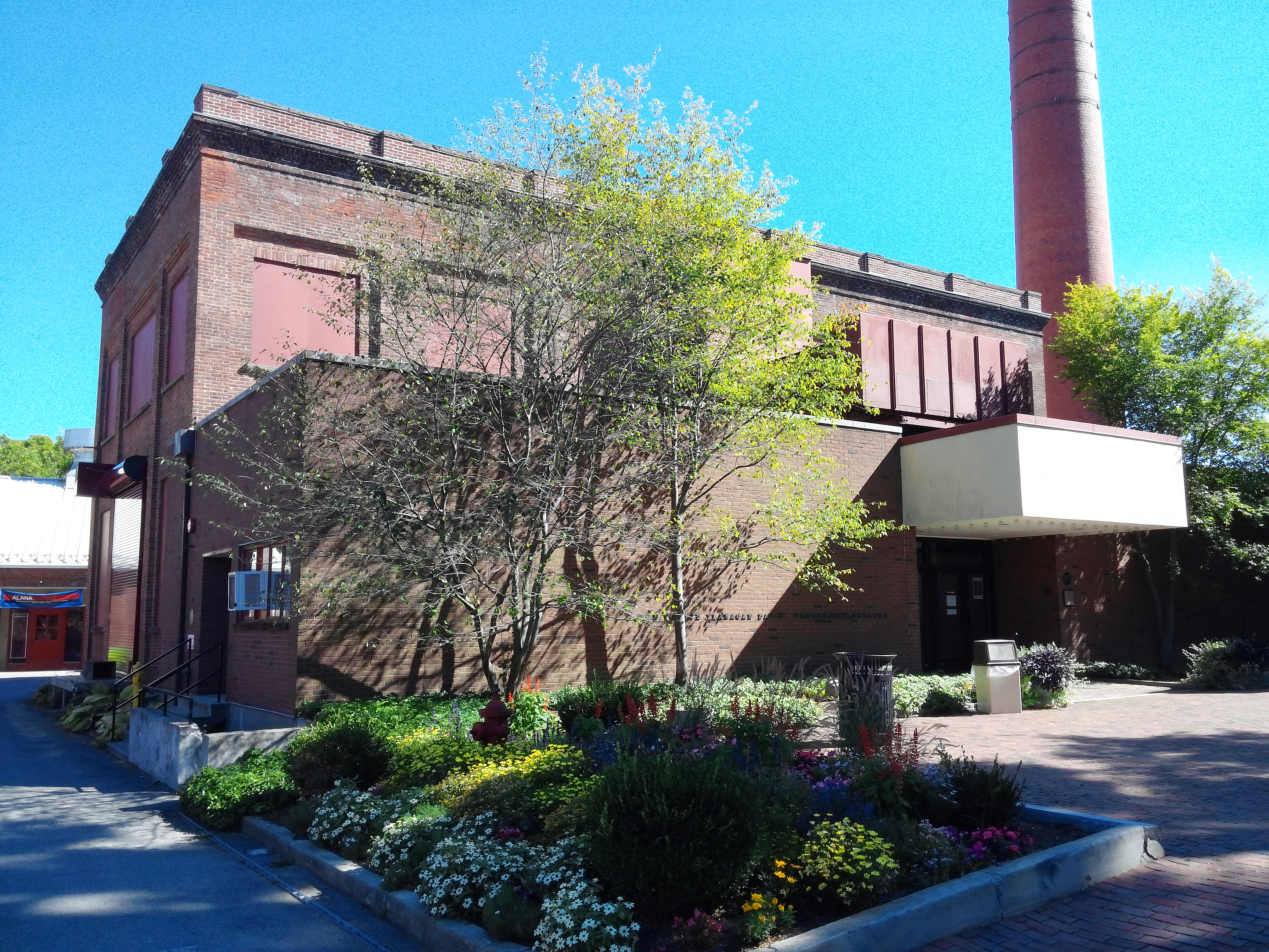 The Powerhouse Theater on the campus of Vassar College.